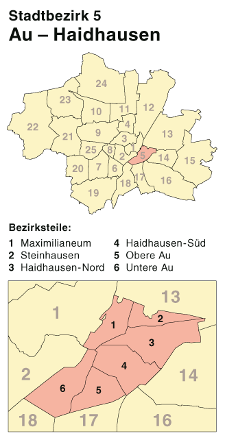 Boroughs of Munich map series